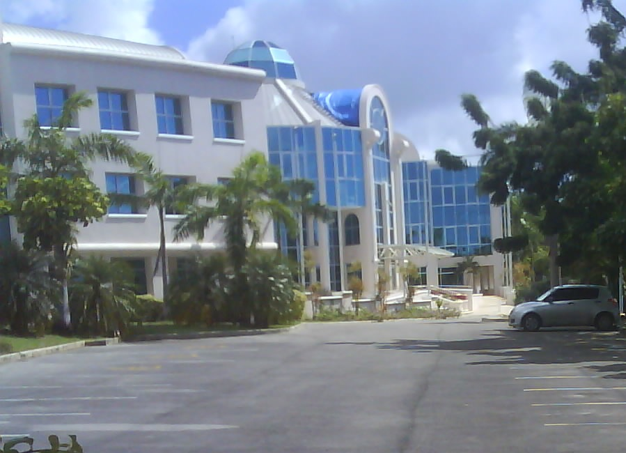 The United Nations' Eastern Caribbean branch office. Located at Marine Gardens, Hastings, Christ Church, Barbados.